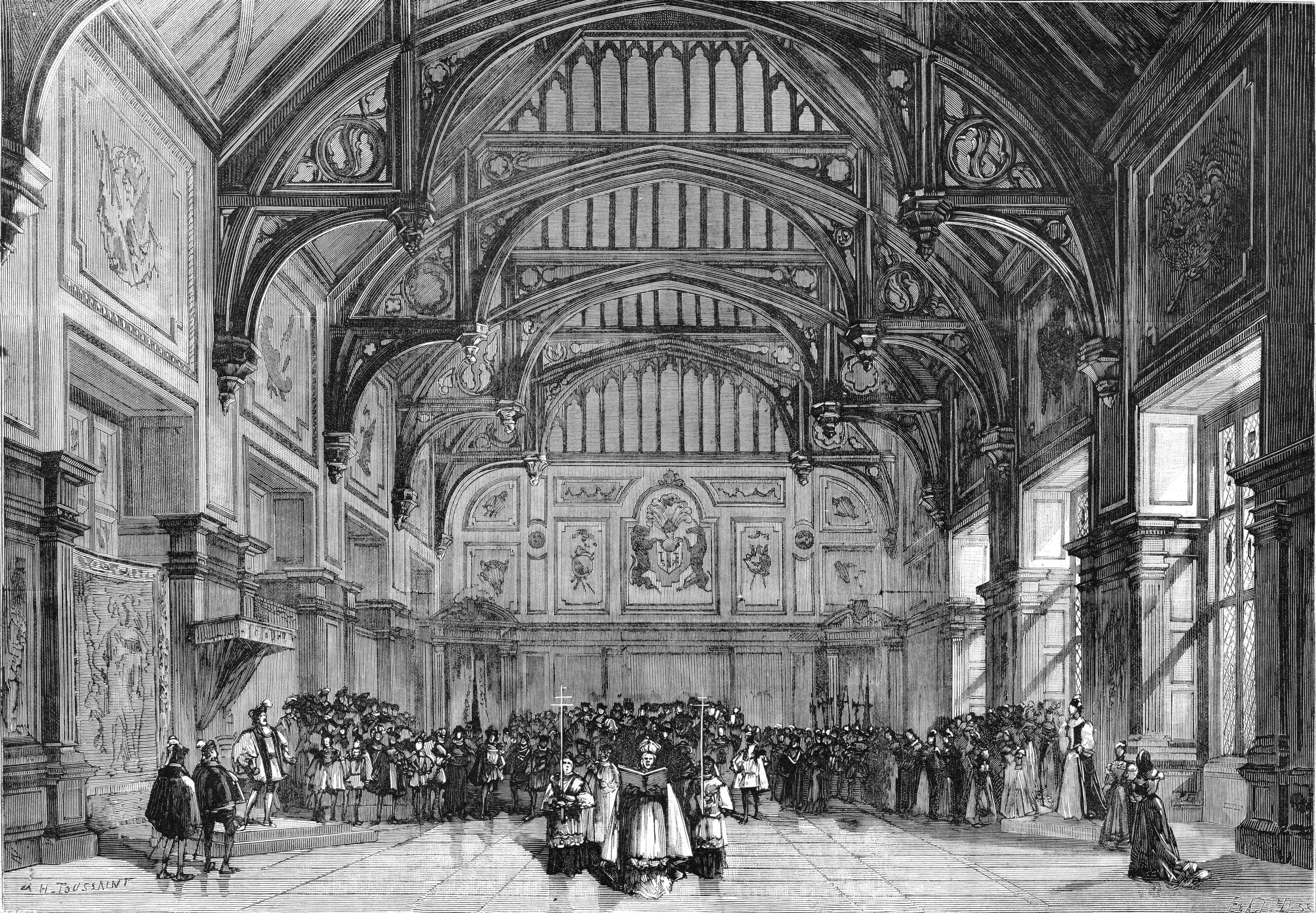 Henry VIII by Camille Saint-Saëns, original production at the Paris Opéra - the divorce, acte 3